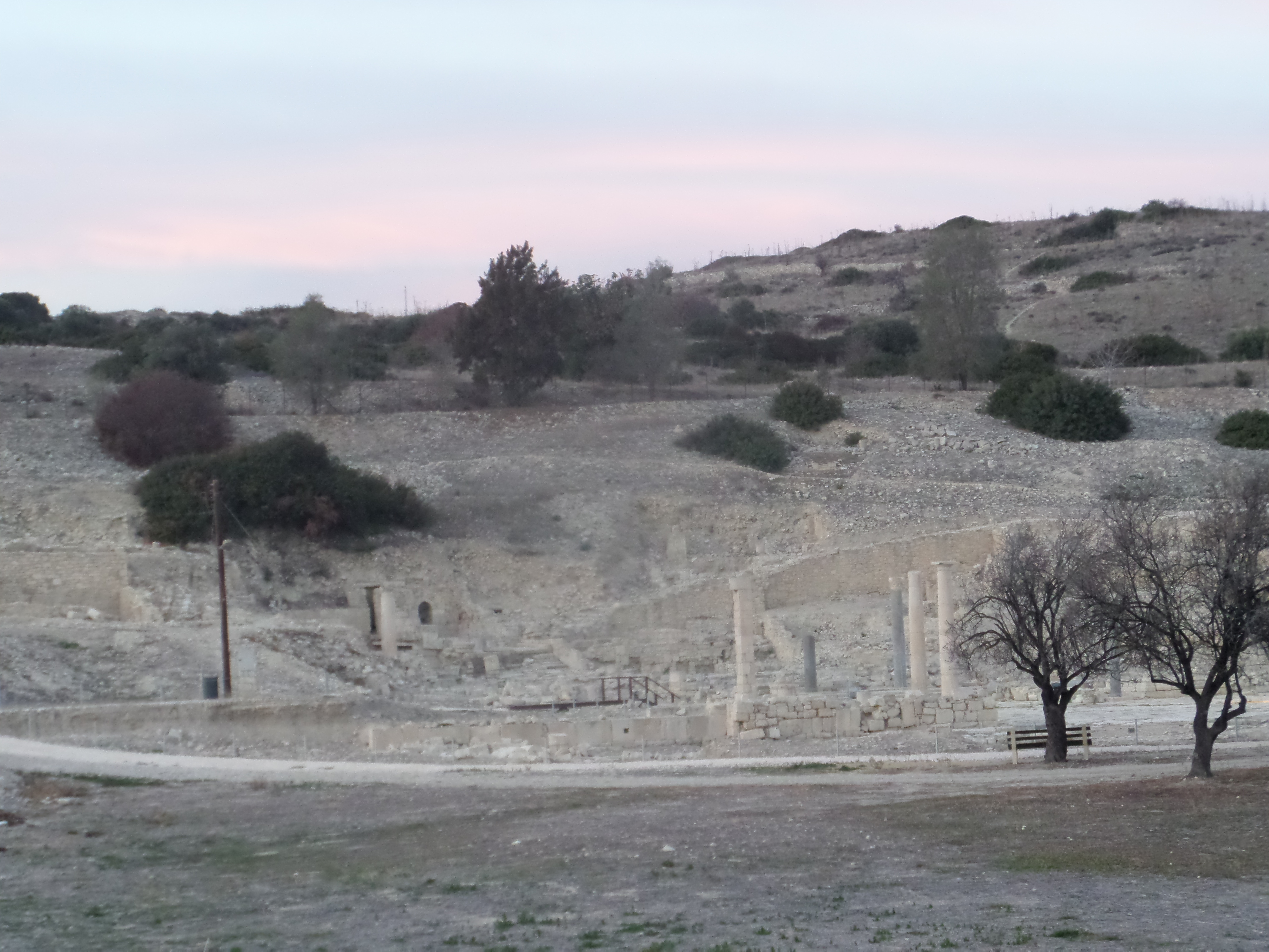 Amathous Archaeological Site